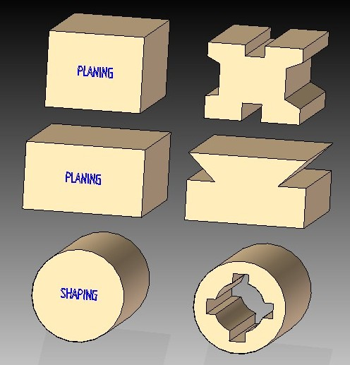 This is a description of typical geometry of workpieces before and after planing/shaping